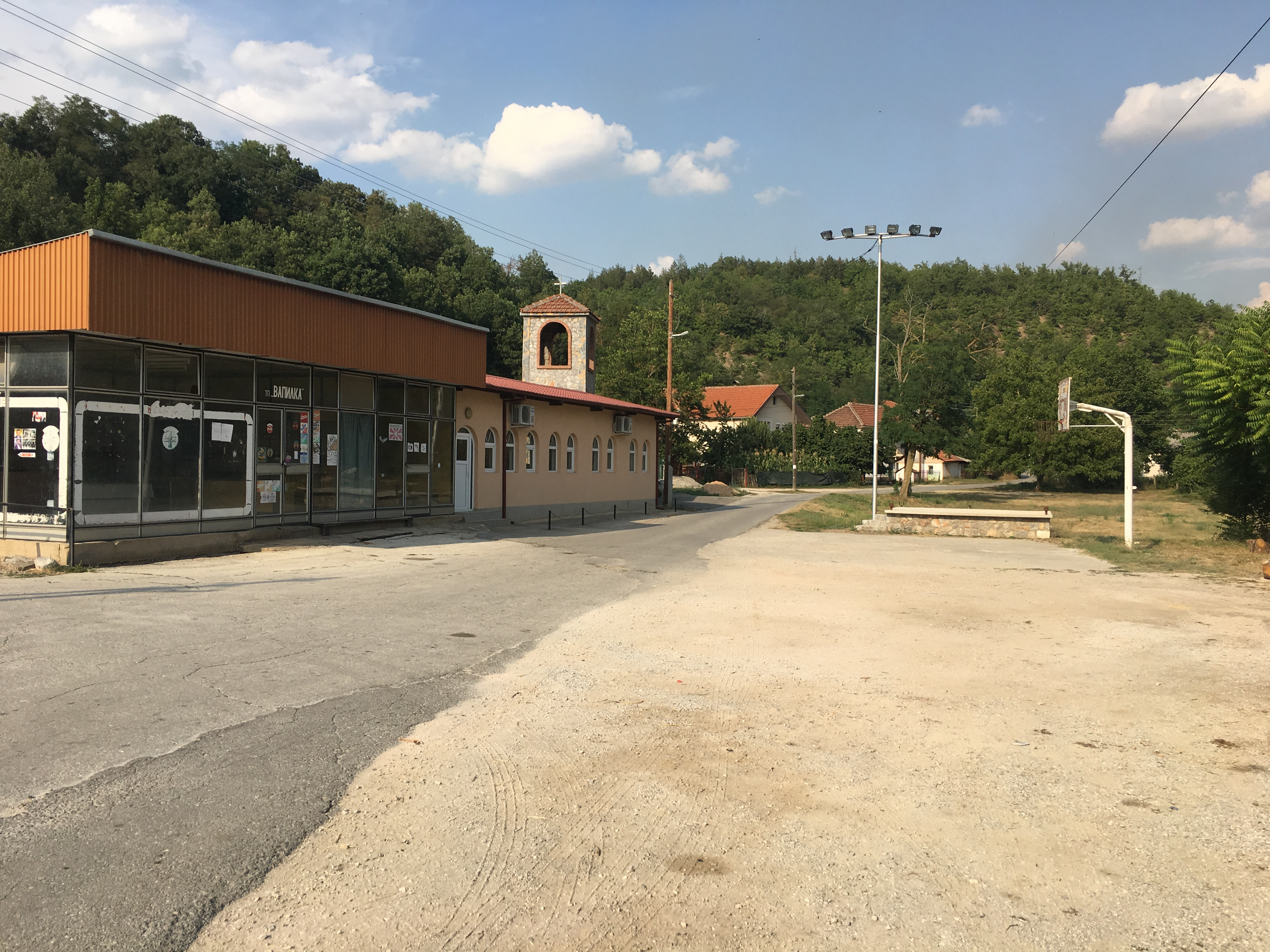 The road through the village of Vapila